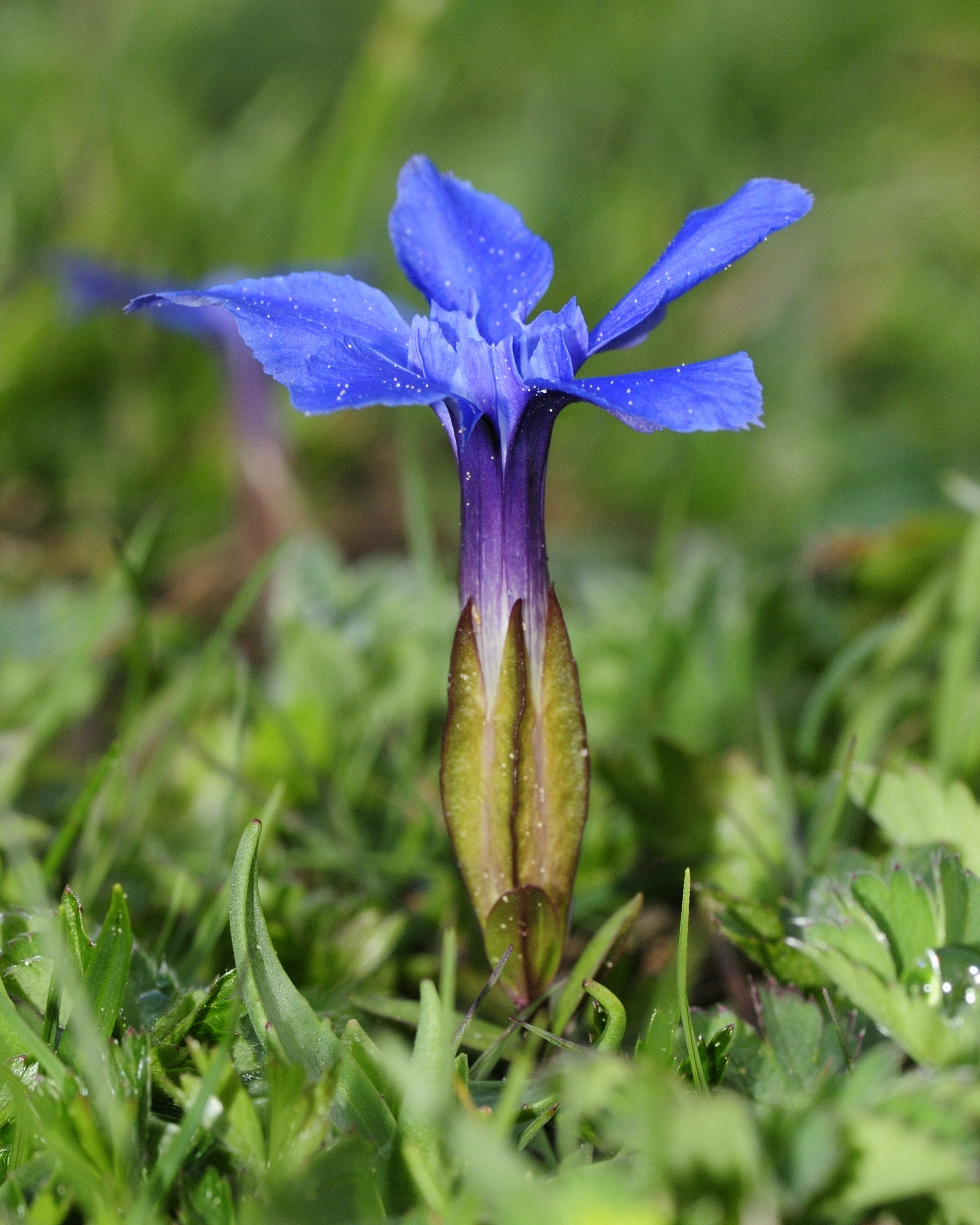 Please report references to .